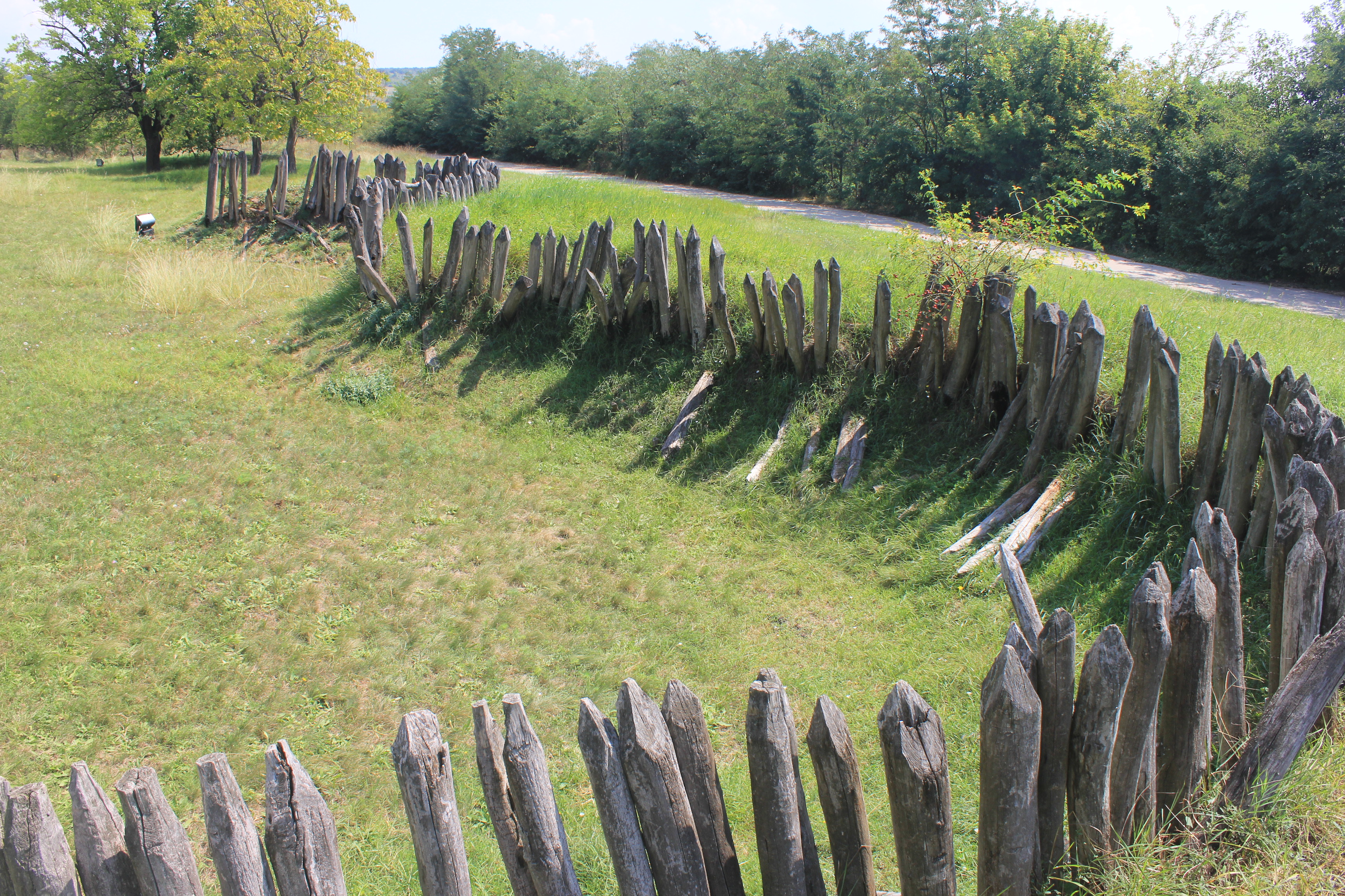 Remains of Deligrad fortress of year 1806